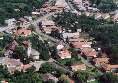 Tardona, Hungary, aerialphotography